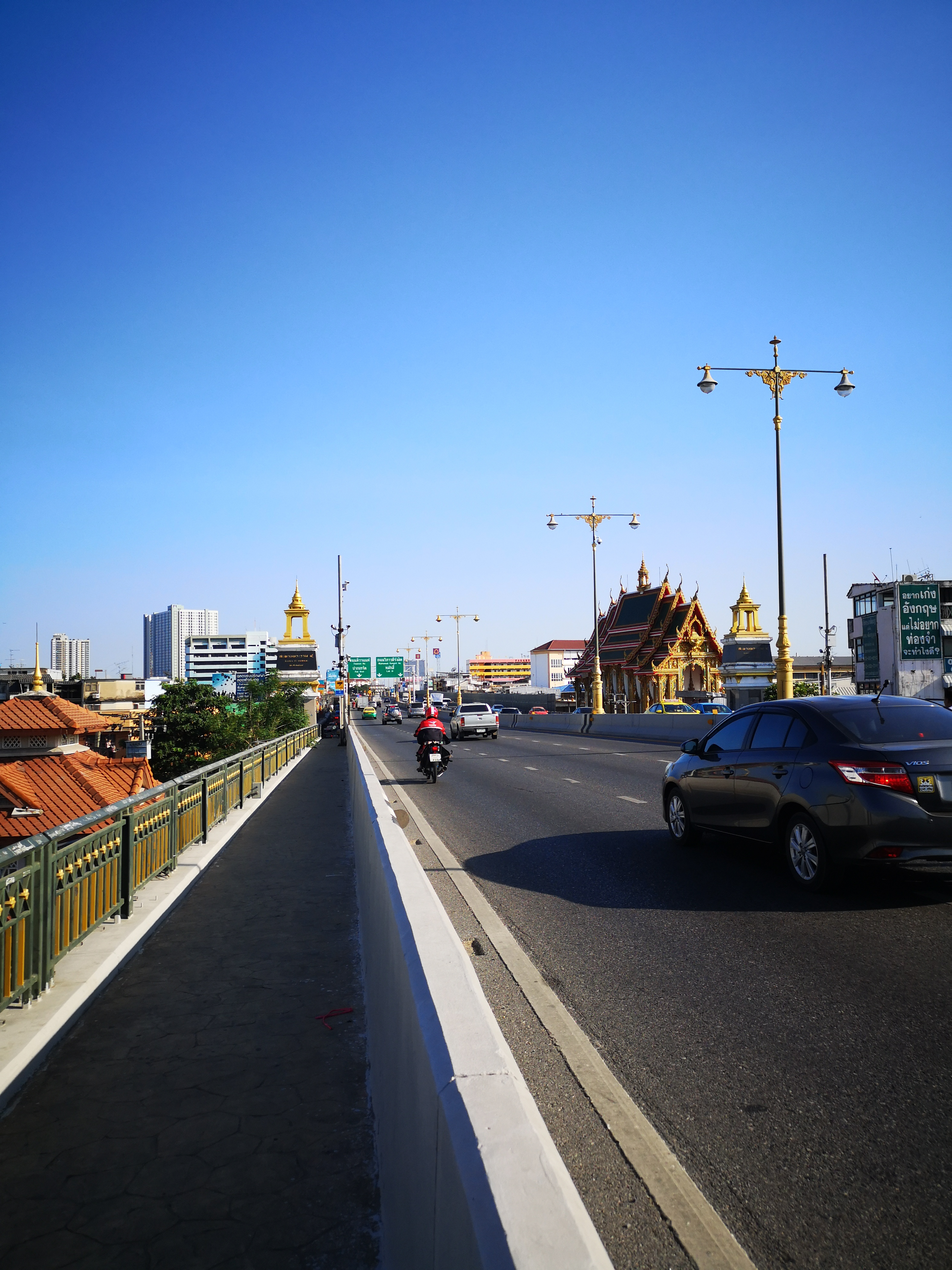 Rama 4 bridge, taken on the bridge